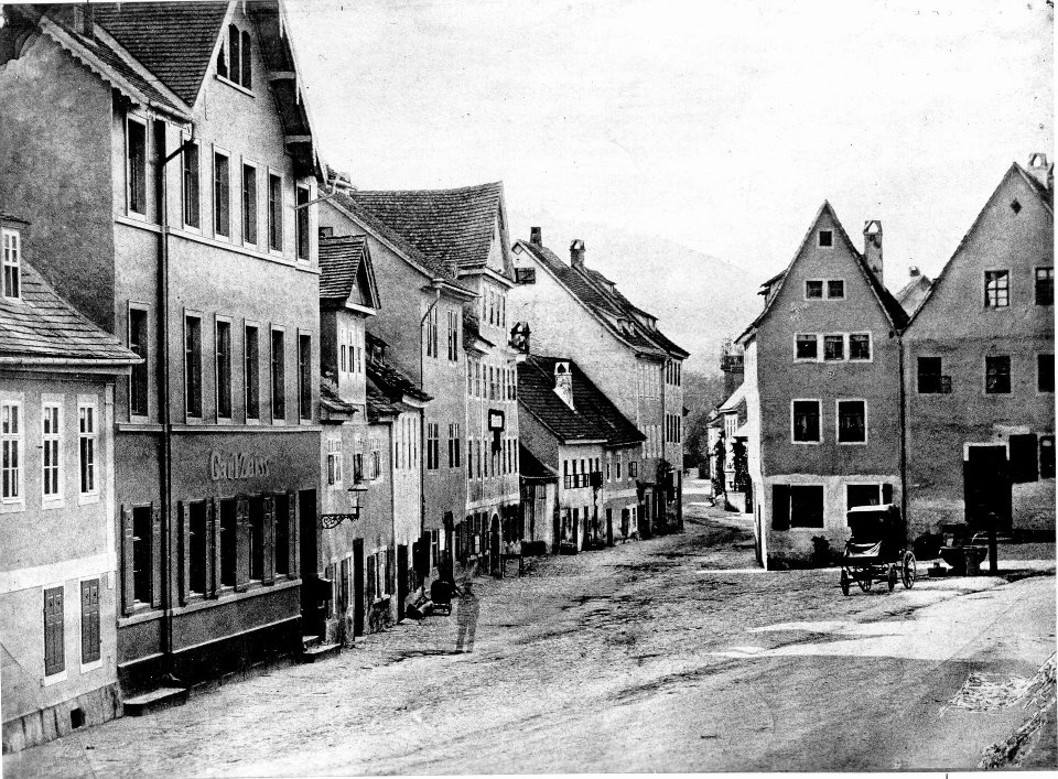 Third workshop of Carl Zeiss in the city center of Jena (Johannisplatz), Germany, after 1858 Images donated as part of a GLAM collaboration with Carl Zeiss Microscopy - please contact Andy Mabbett for details.